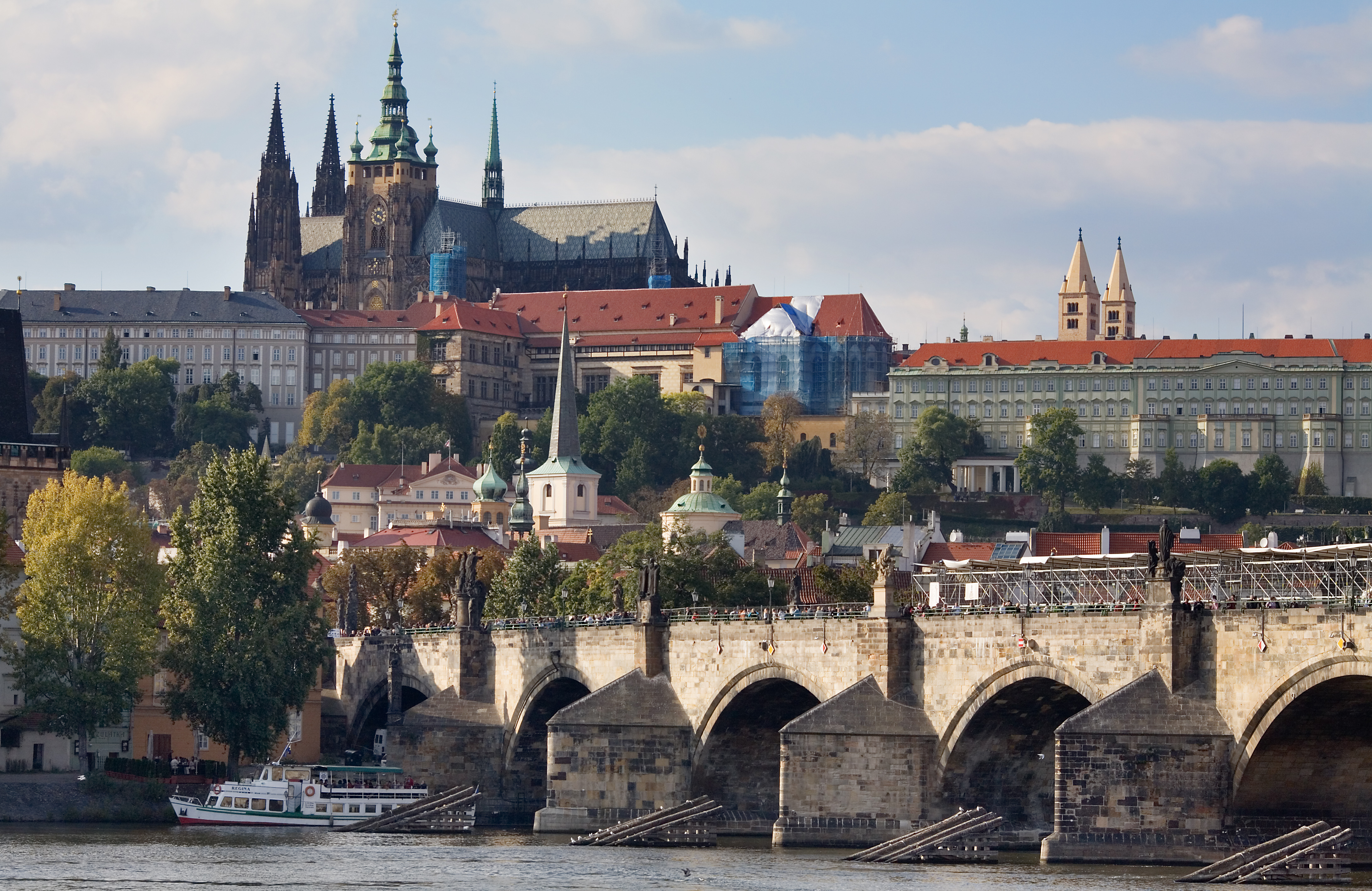 The Castle and Charles Bridge, Prague, Czech Republic